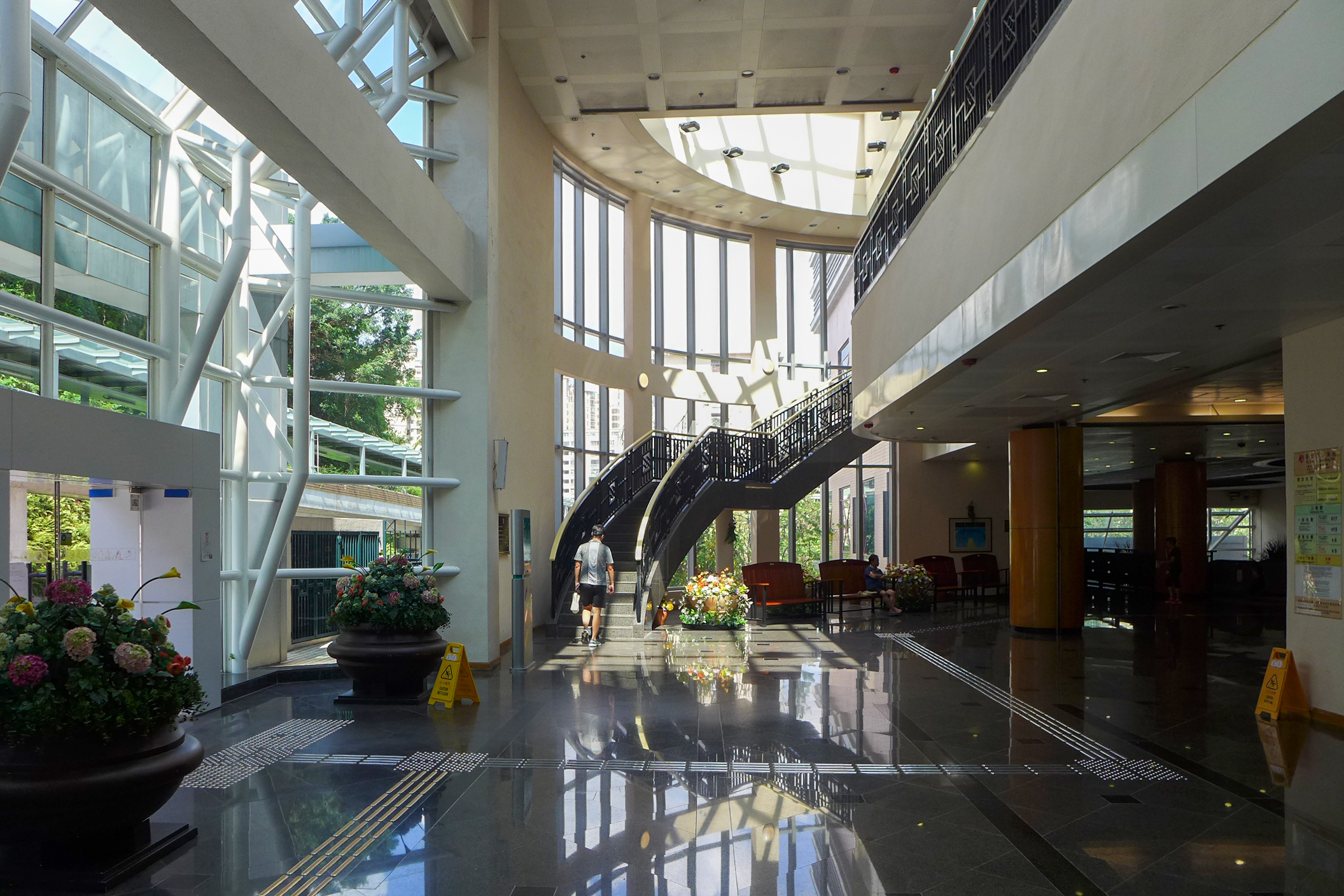 Ho Man Tin Sports Centre